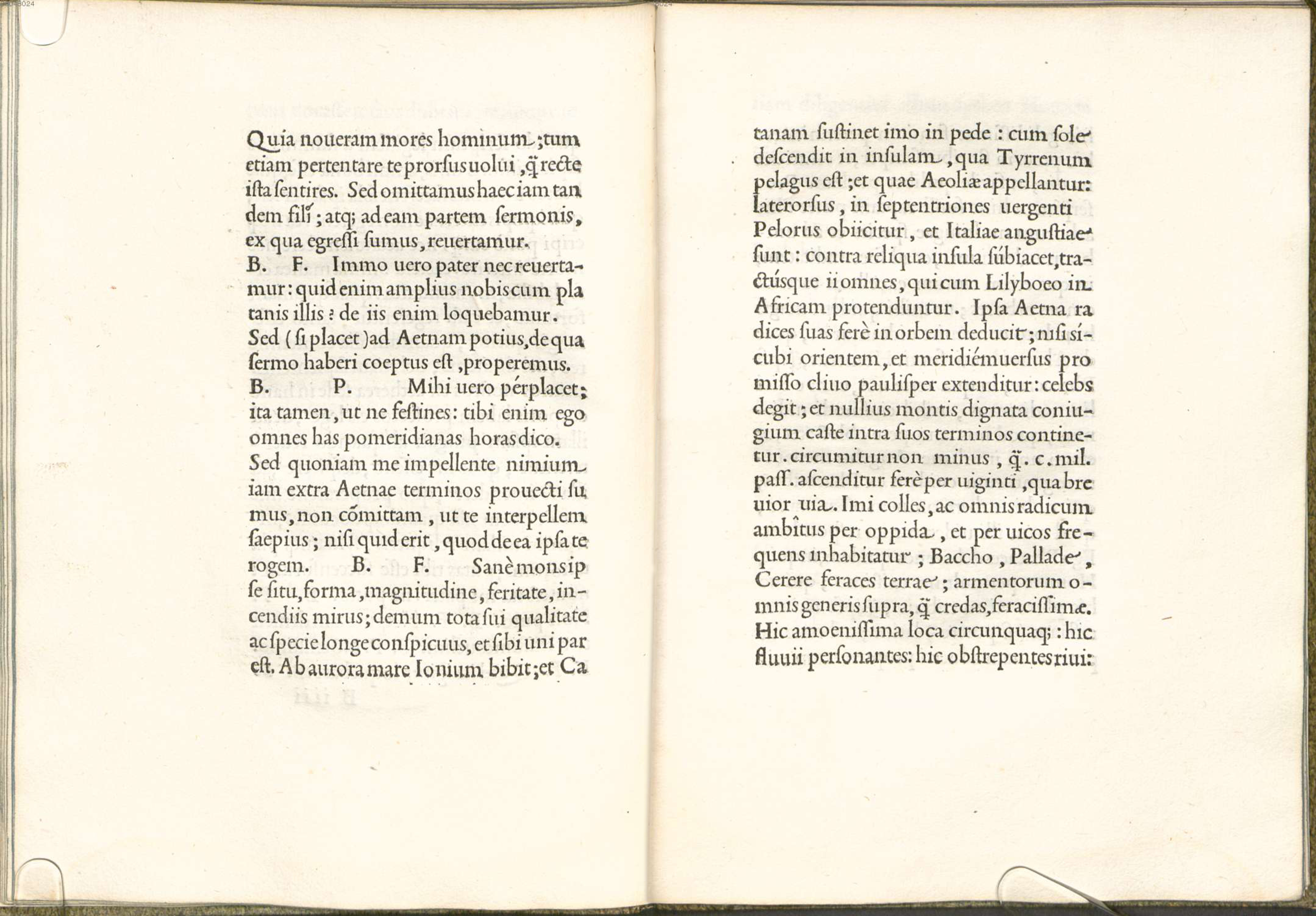 Page spread from Pietro Bembo's "De Aetna" printed by Aldus Manutius about 1495. Copy of the Bayerische Staatsbibliothek.